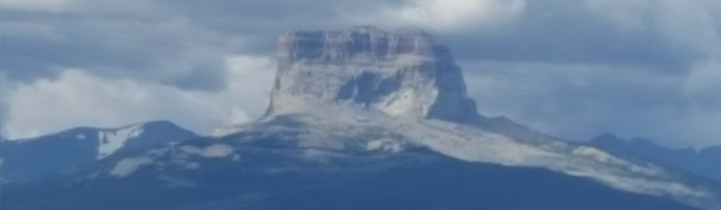 Sacred Chief Mountain